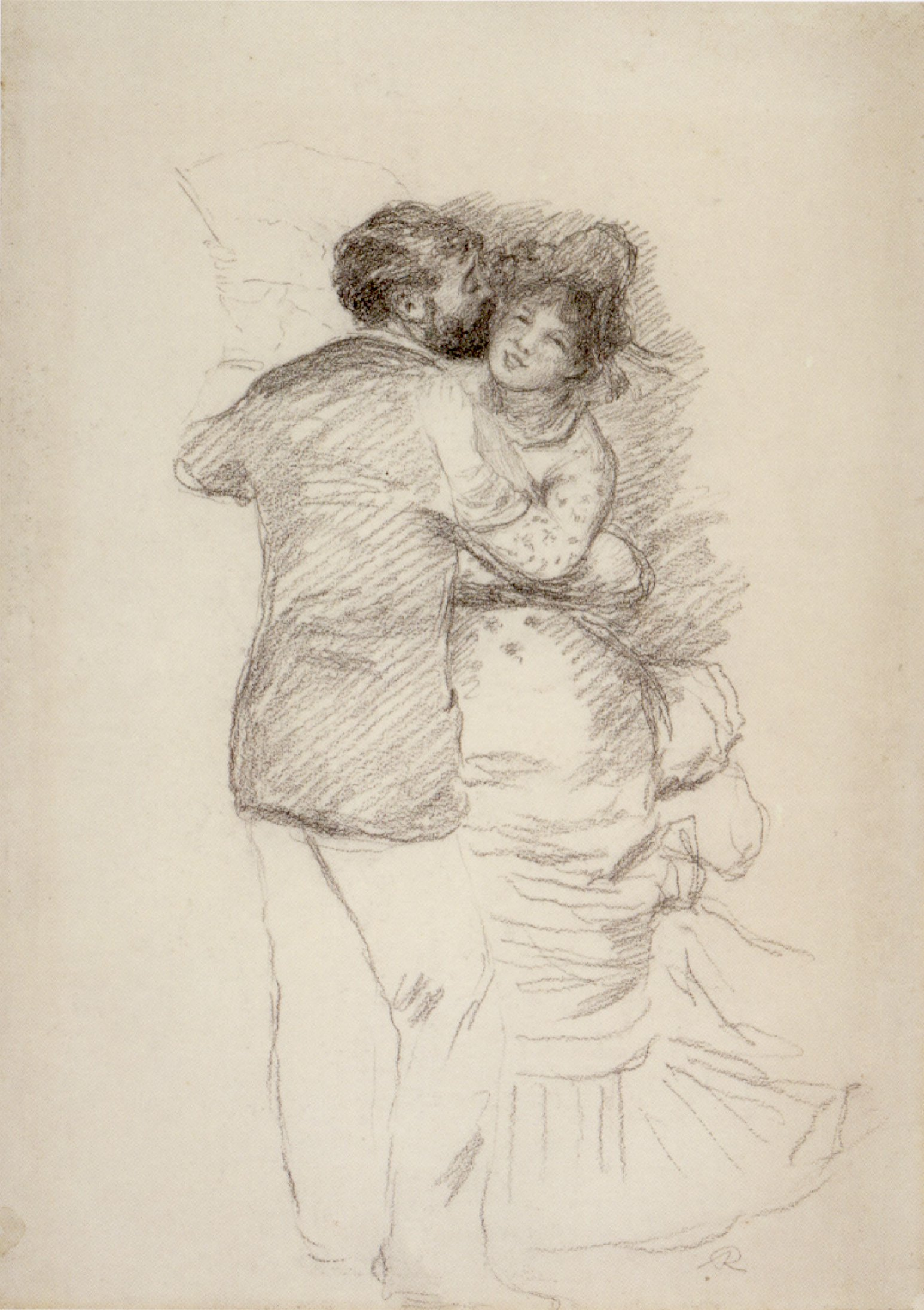 Pencil study for Dance in the Country (Aline Charigot and Paul Lhote)